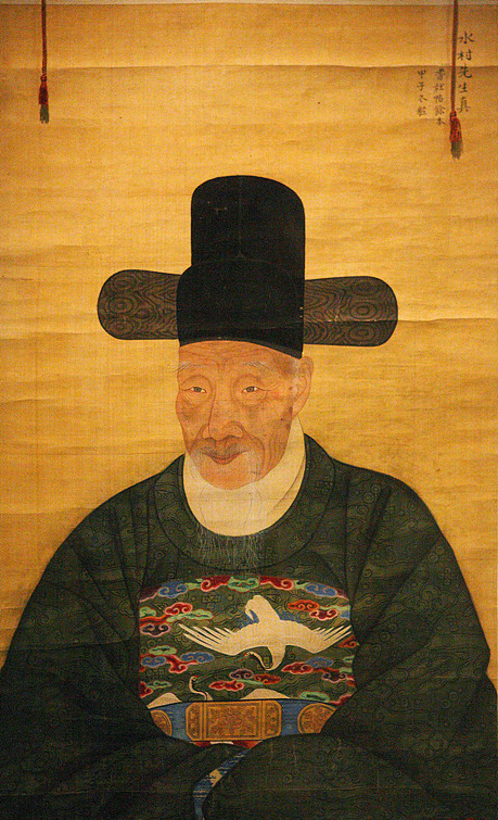 portrait of Yim Bang